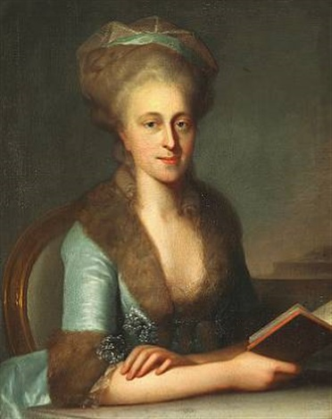 Portrait of Johanne Charlotte Sophie Zinn, née Preisler (1754-1833), wife of J.L. Zinn